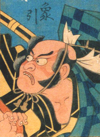 Zōhiki, Shibaraku, Uirō, Rokubu, Fudō, Sukeroku, Kagekiyo, Gorō, by Toyokuni Utagawa III, featuring Danjūrō Ichikawa I as Yamagami Gennaizaemon in Zōhiki